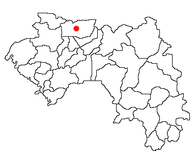 Mali, Guinea Location Map; created with the GIMP. Made by User:Acntx.